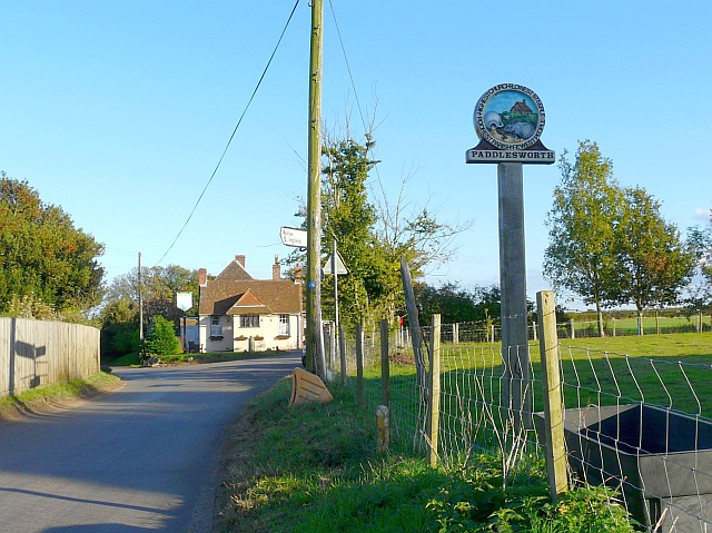 Entering Paddlesworth from the west. The road ahead forks, on either side of the Cat and Custard Pot pub - see 851784. 1562162 shows more detail of the artwork.